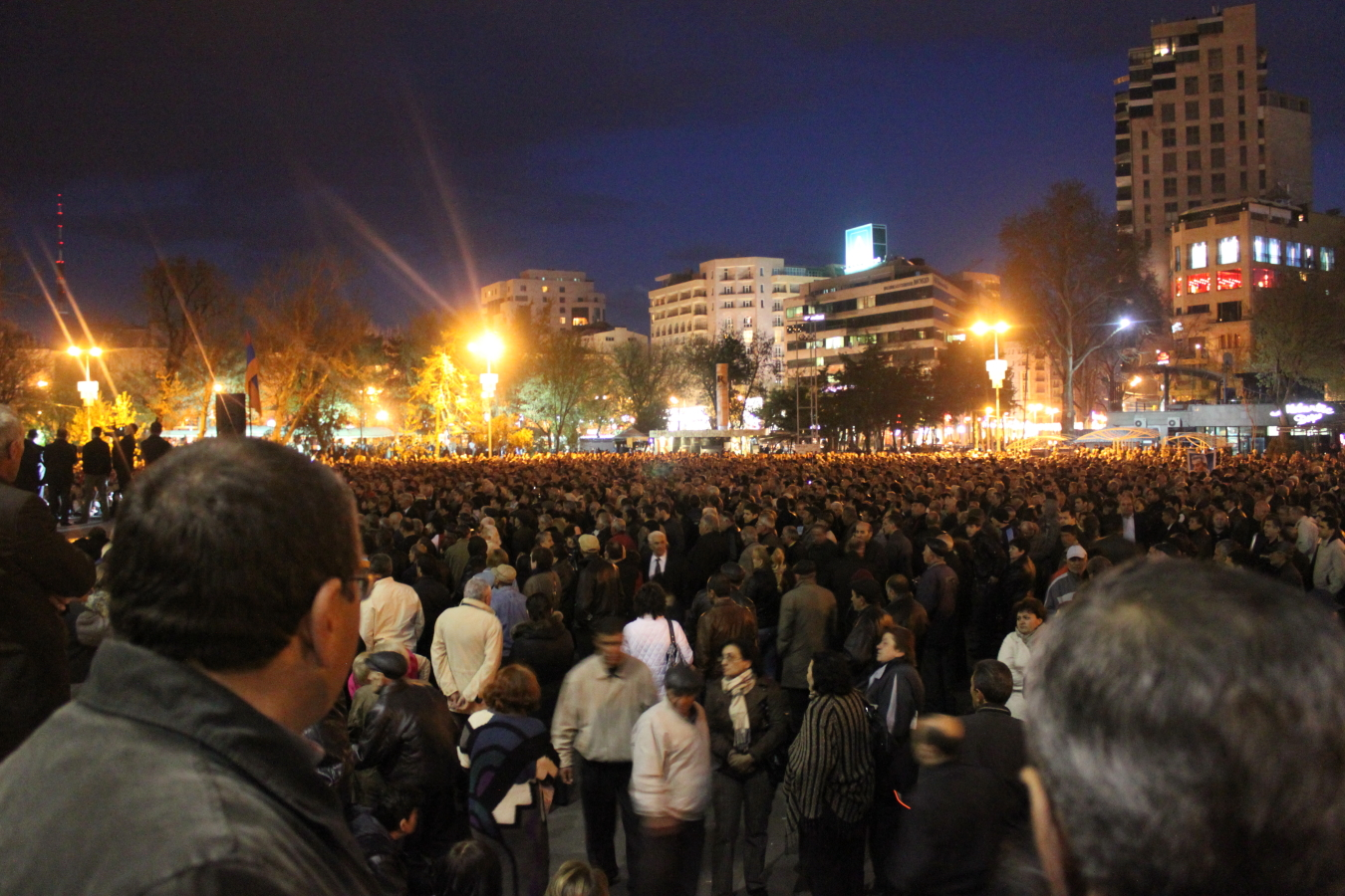 A protest organized by the Armenian National Congress in Yerevan's Liberty Square.